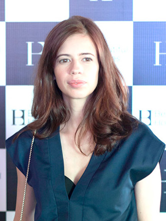 Kalki Koechlin launches